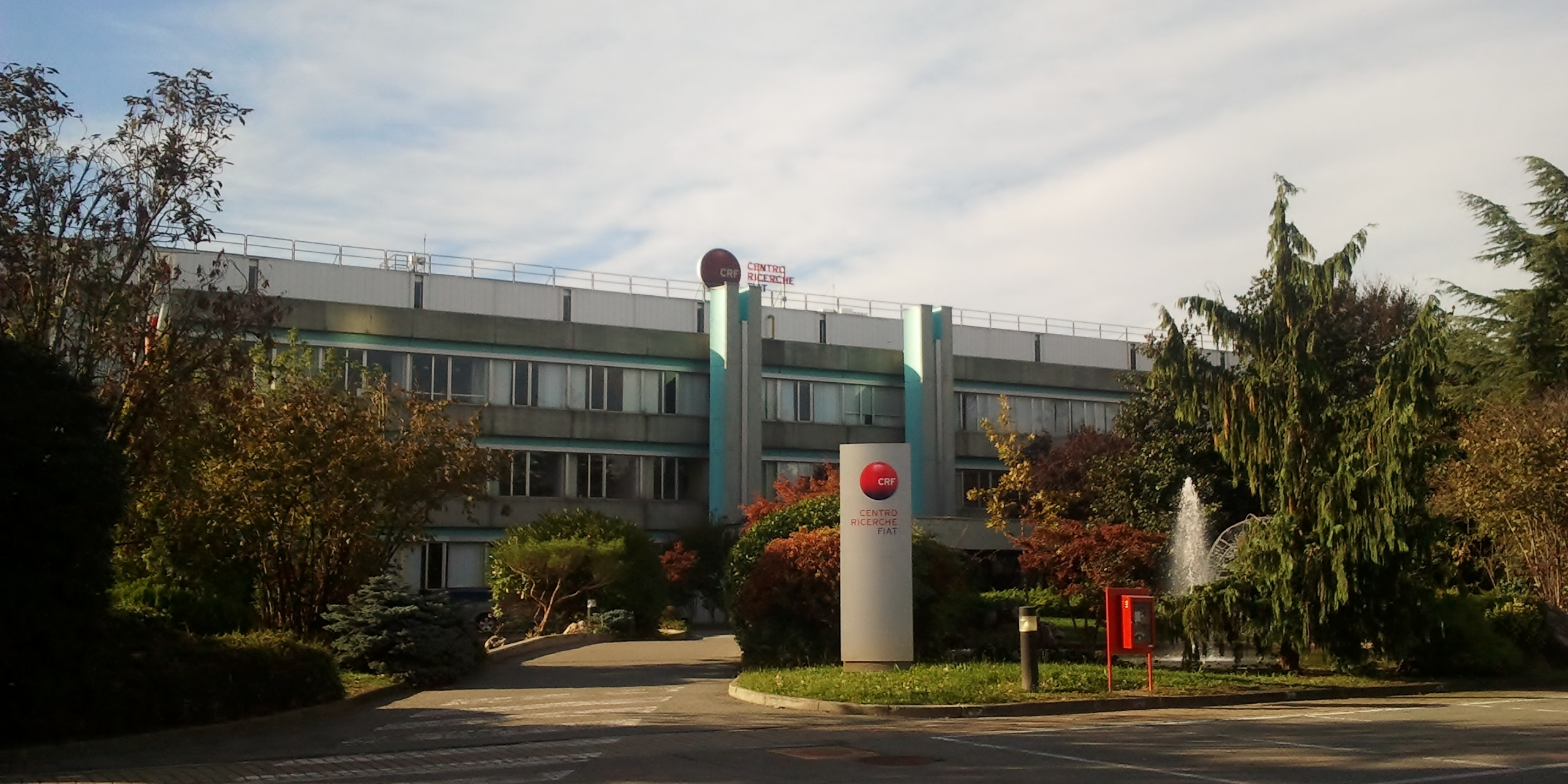 Centro Ricerche Fiat. Orbassano. Torino